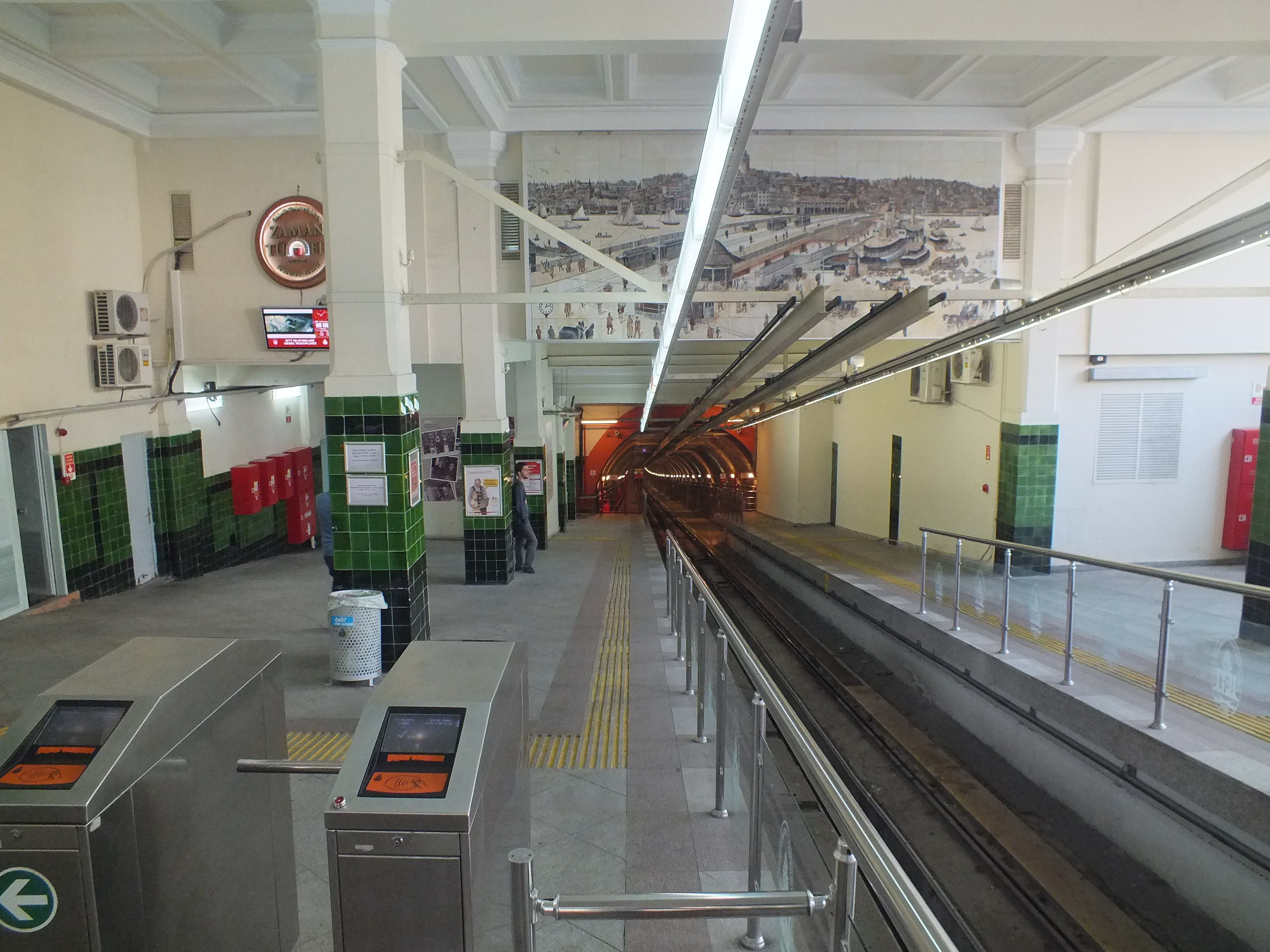 Beyoglu Tünel station.